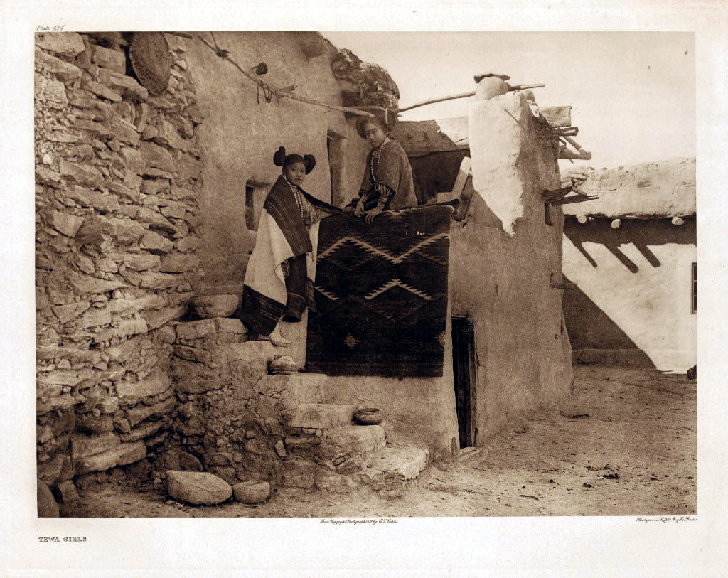 Tewa girls — at a pueblo, SW U.S. (1922). From The North American Indian, by Edward S. Curtis.